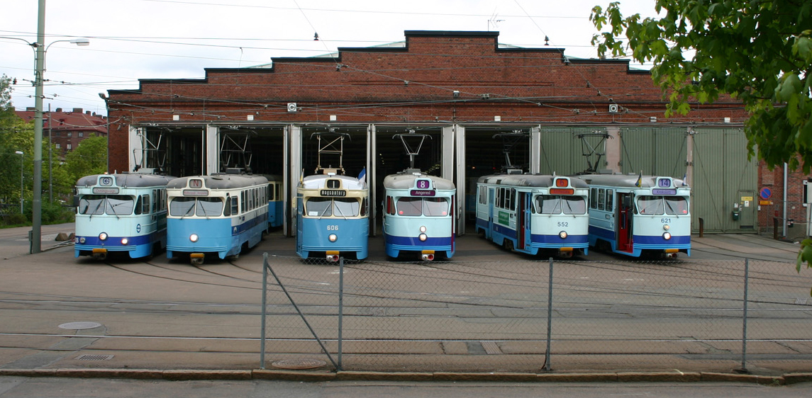 The last tram type M25 in Gothenburg.